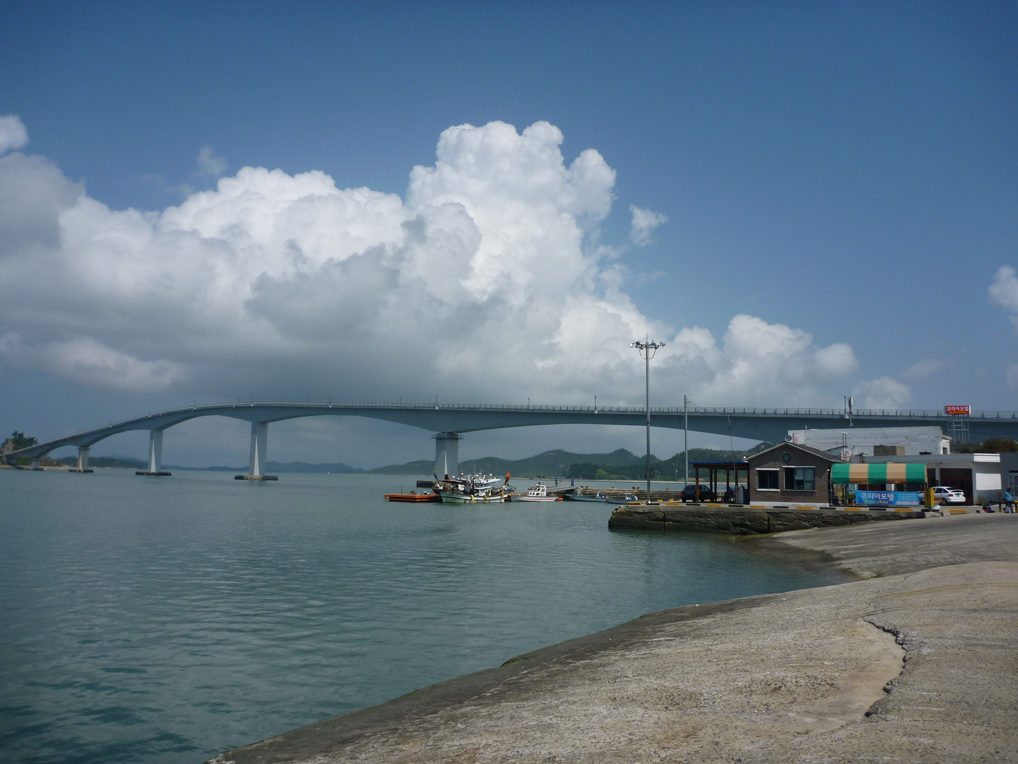 Bridge in Jeollanam-do